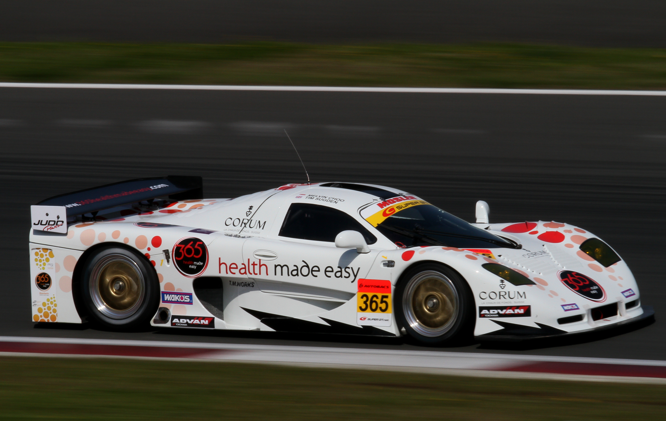 Super GT 2010 Rd.3 Fuji GT 400km: Melvin Choo (365 Thunder Asia Racing) driving the 365 ThunderAsia MT900M (GT300 car) during qualify session.